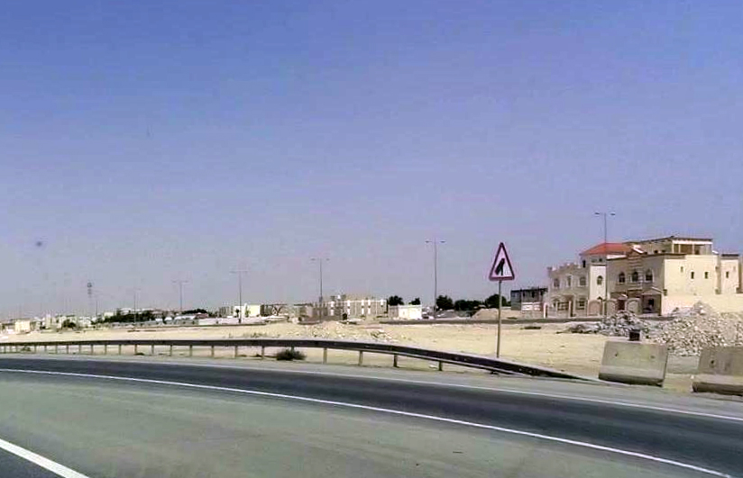 View of Umm Salal Ali from the highway. Qatar.